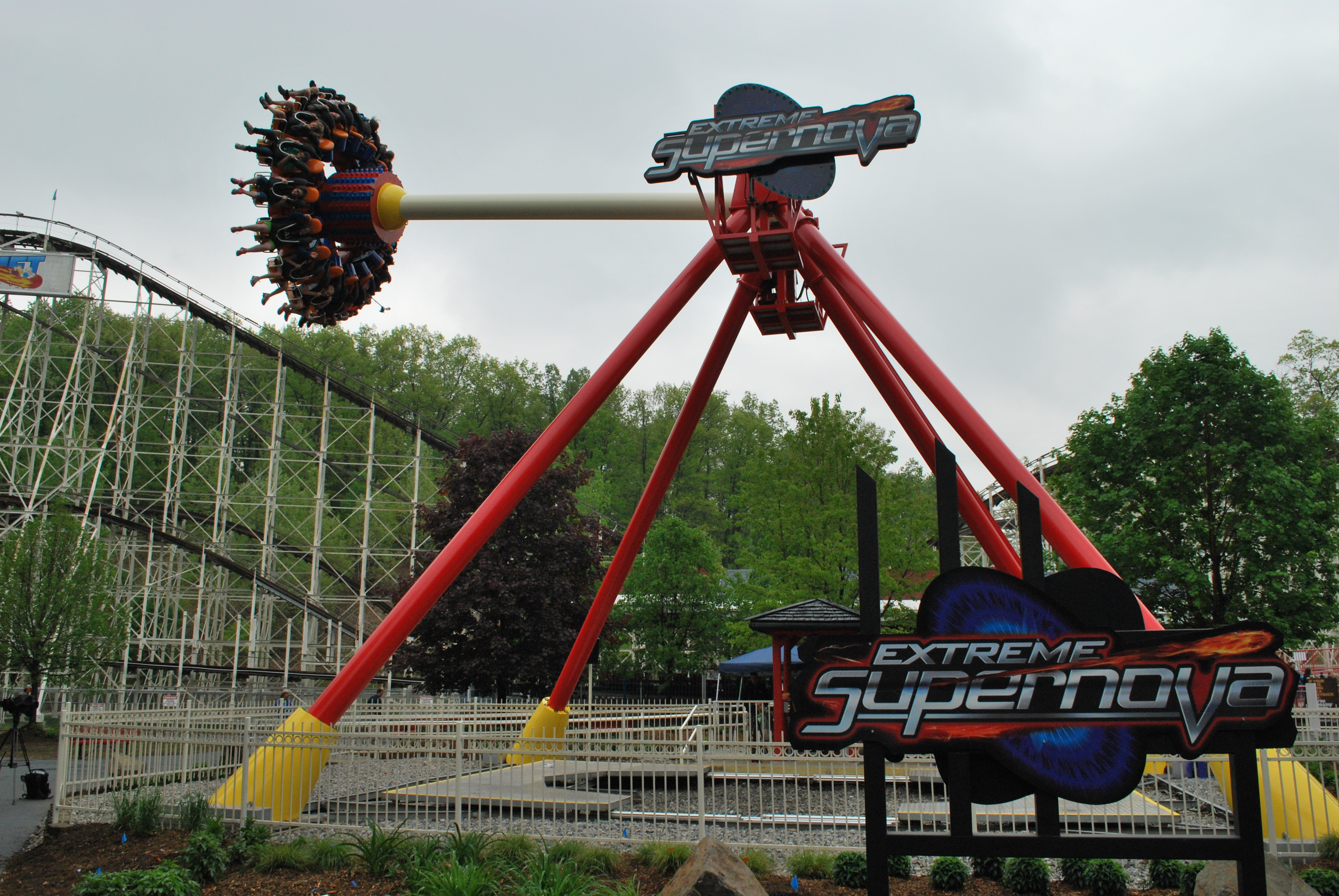 The Extreme Supernova is a relocated Zamperla Midi Discovery that was installed at The Great Escape in 2014. The park is located in Queensbury, NY.